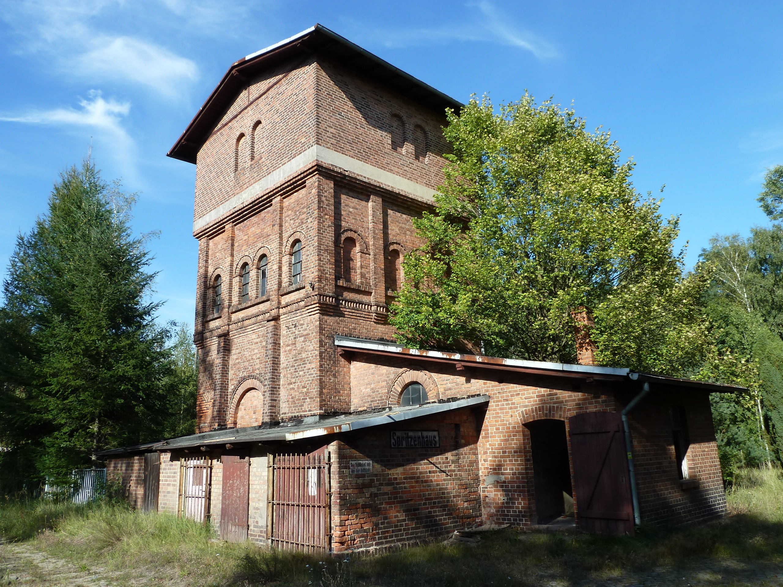 Former Jamlitz railway station, water tower